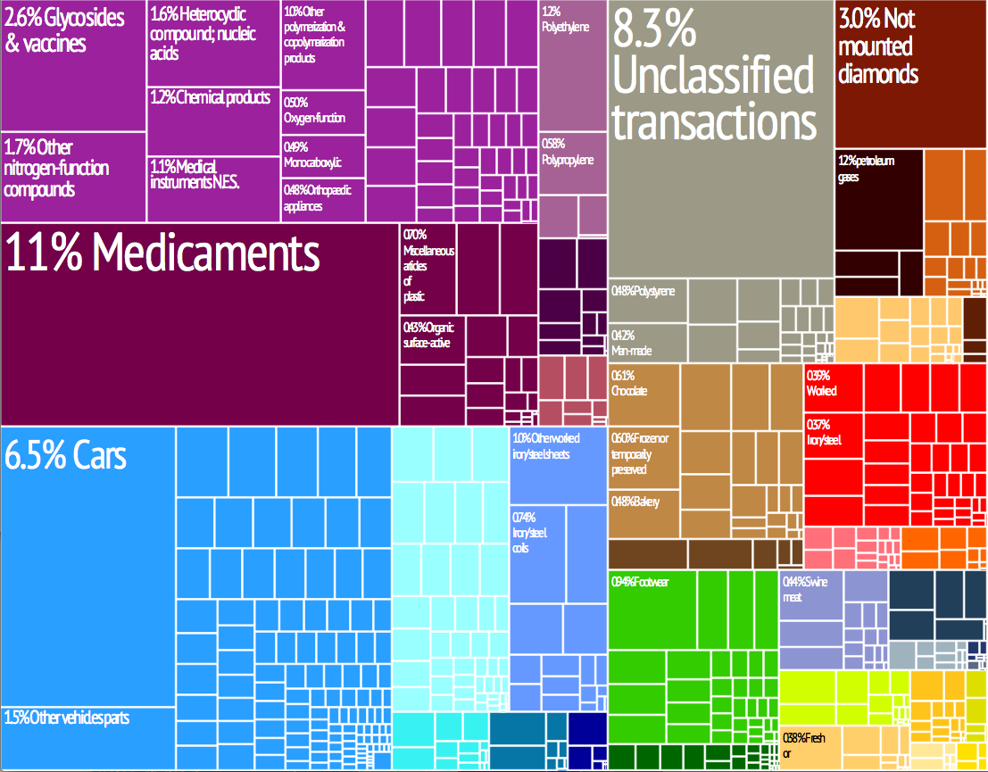 Export Trading Treemap. From MIT/Harvard Atlas of Economic Complexity